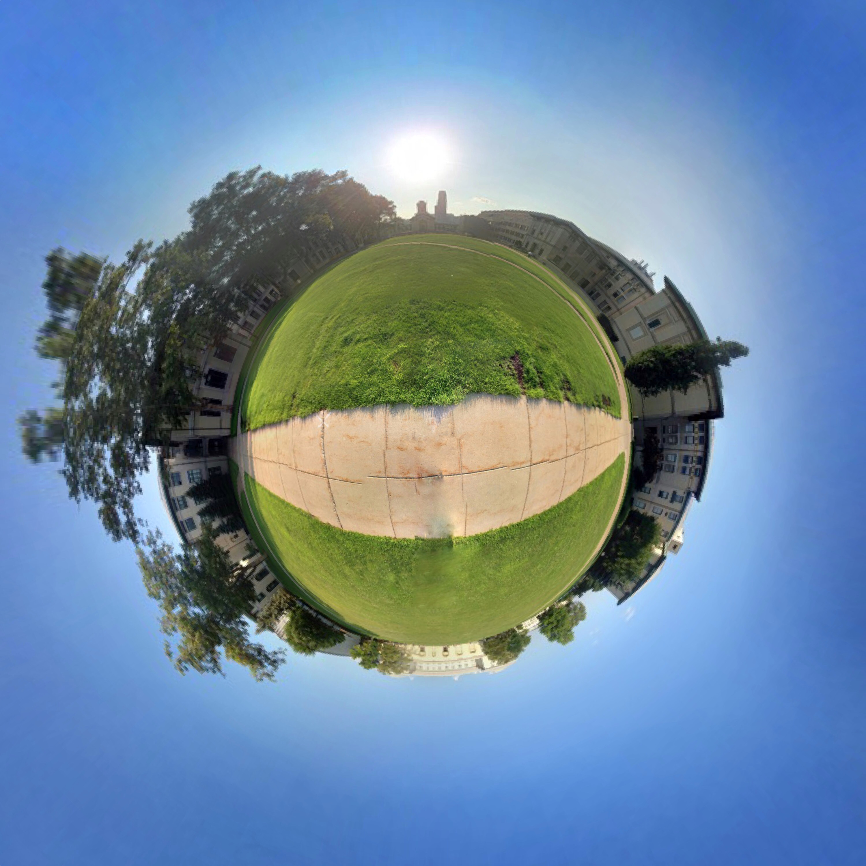 A panoramic picture taken at the Carnegie Mellon University lawn. Twisted into a planet.